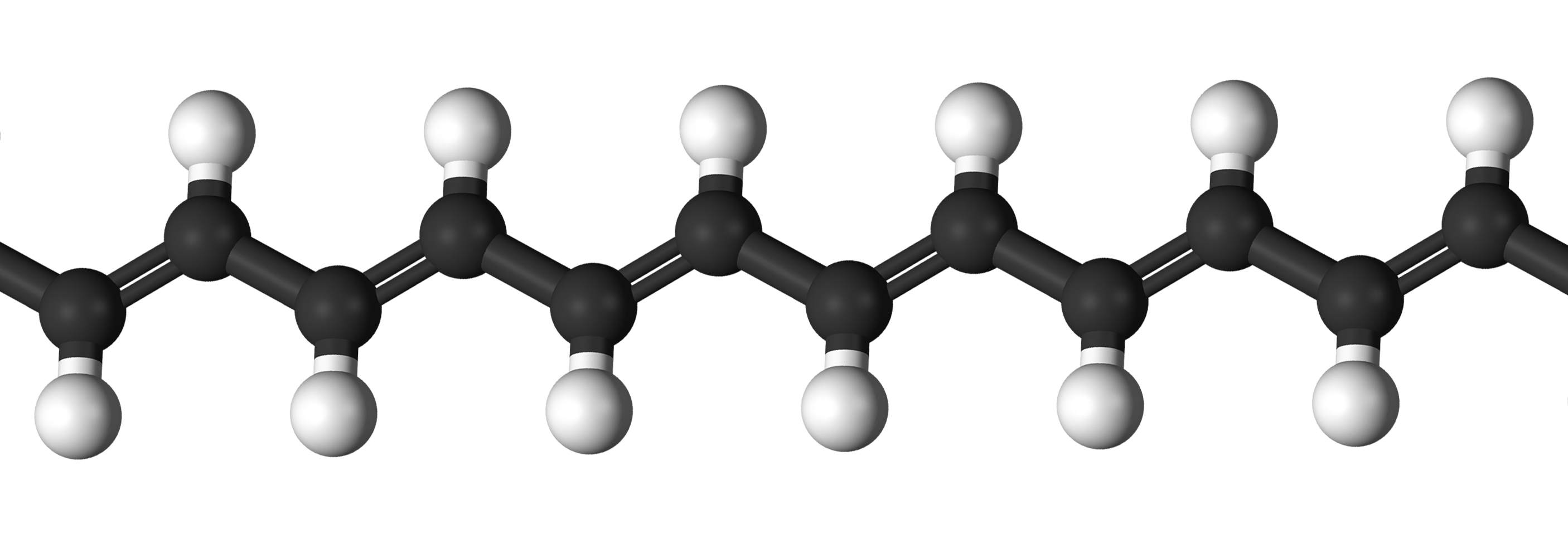 Ball and stick model of a section of a polymer chain of polyacetylene.